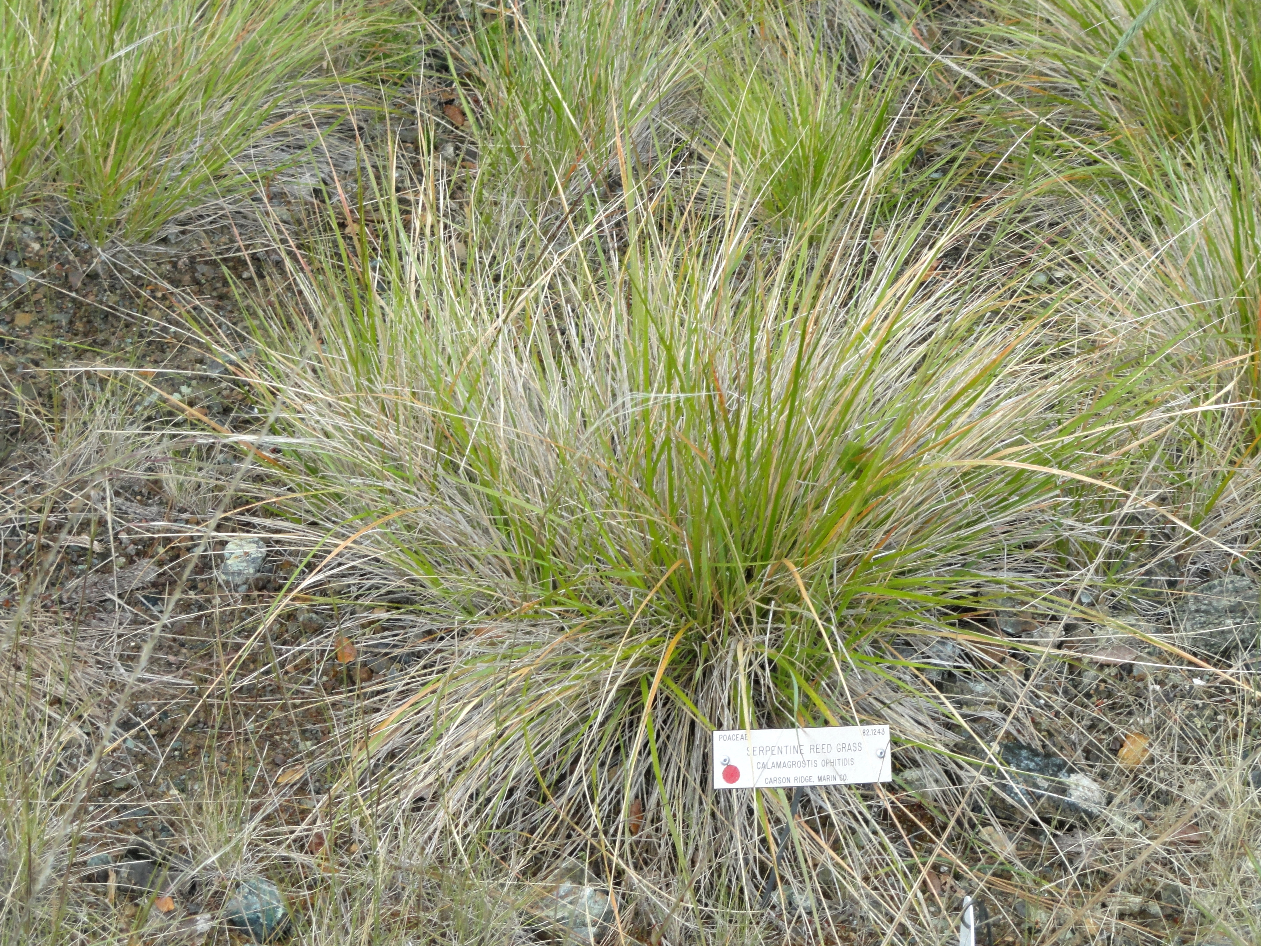 Calamagrostis ophitidis — serpentine reedgrass. Endemic to serpentine slopes in the northern San Francisco Bay Area. Specimen in the University of California Botanical Garden, Berkeley, California, U.S.